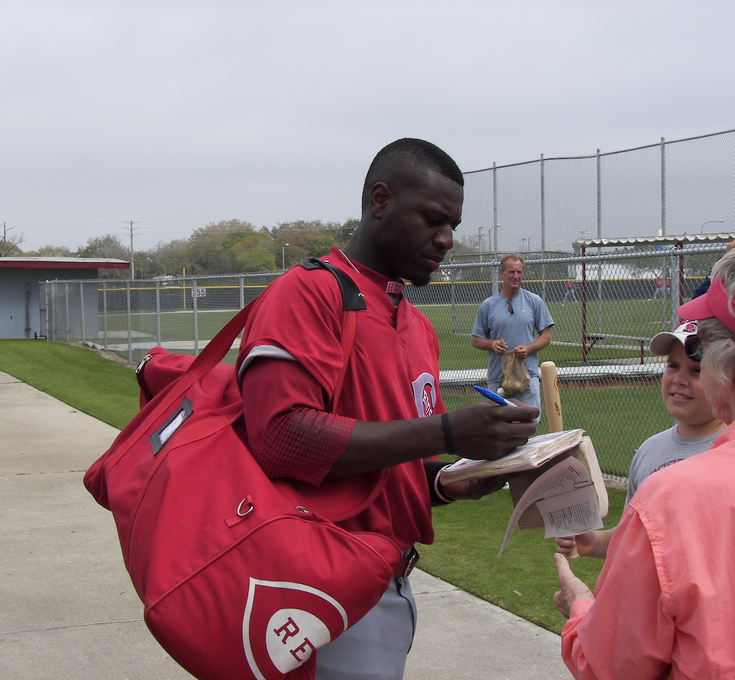 Cincinnati Reds infielder Brandon Phillips during a Spring Training workout outside Ed Smith Stadium in Sarasota, Florida.